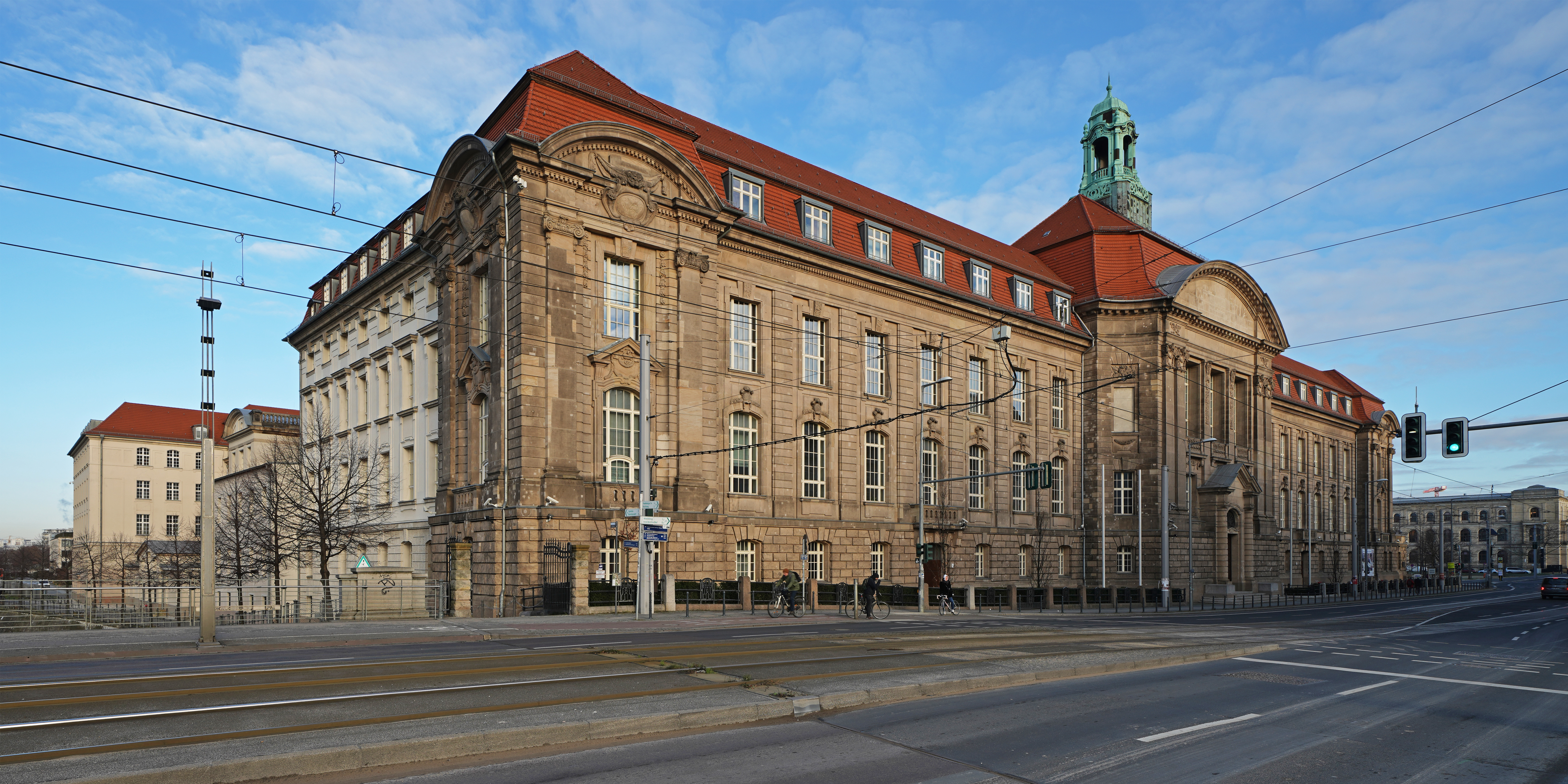 Building of the Ministry of Economic Affairs and Energy, Berlin (Germany)